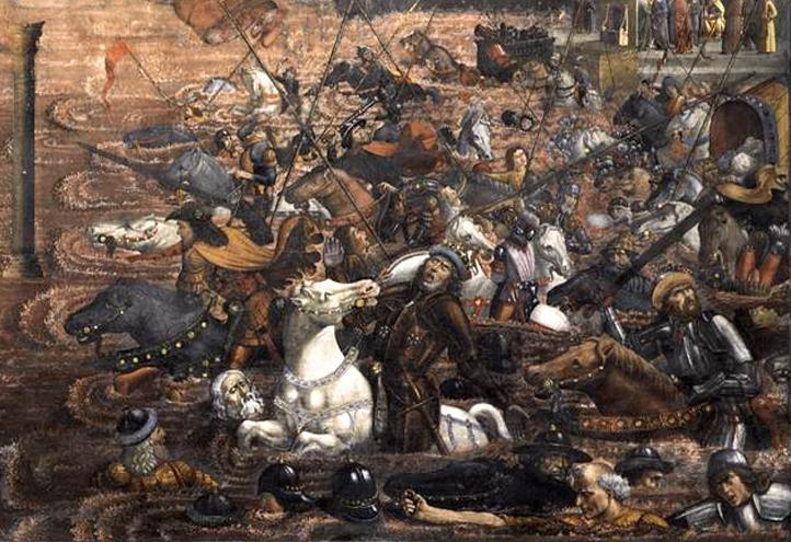 ROSSELLI, Cosimo Crossing of the Red Sea Fresco, 350 x 572 cm Cappella Sistina, Vatican